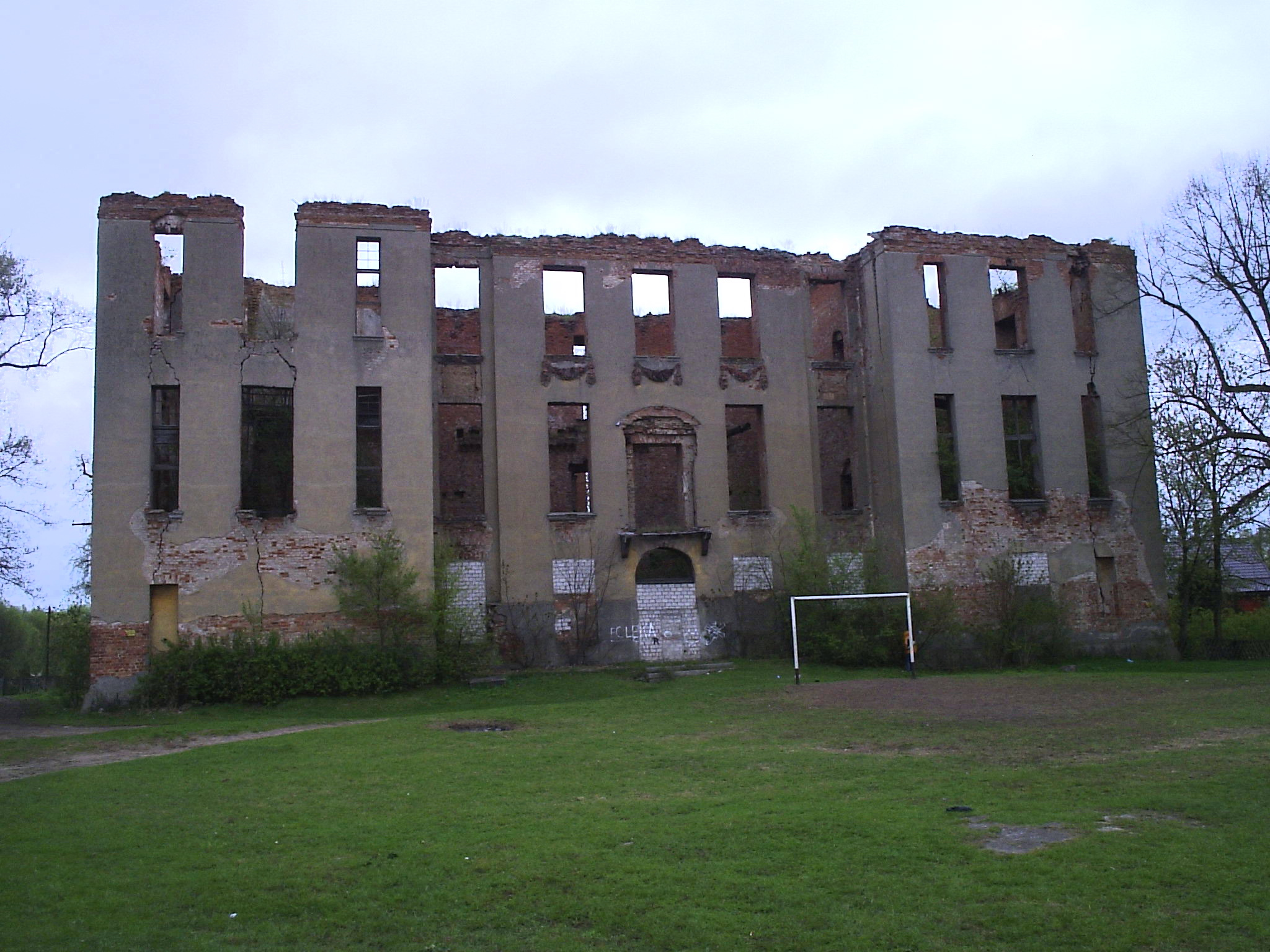 Słońsk, Poland